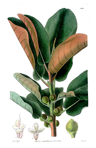 Rusty-Leaved Fig, Botany-Bay Fig - Ficus rubiginosa.